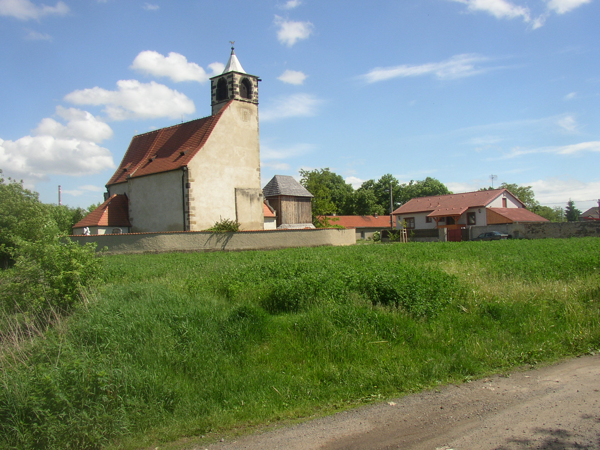 Gothic church of St. James in Libiš, Mělník District, Czech Republic. Built shortly before 1391, tower added in 1541.